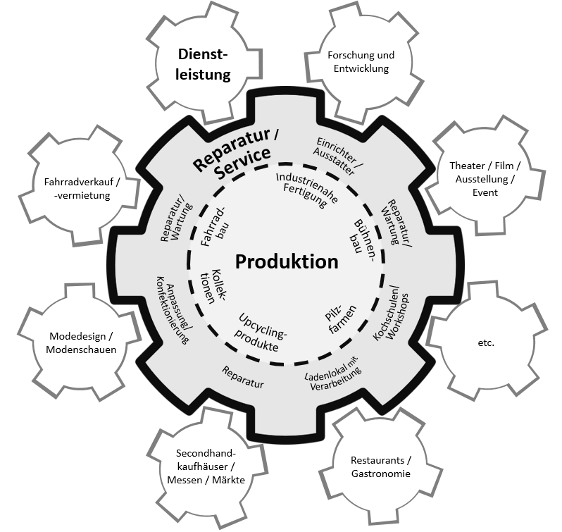 The rack-wheel of production shows production plants in a city or region as the base of economic development. If production plants settle down related services will be needed.